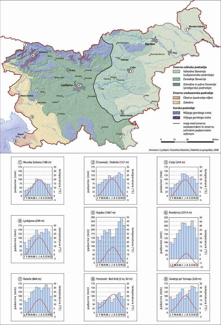 Climate types in Slovenia